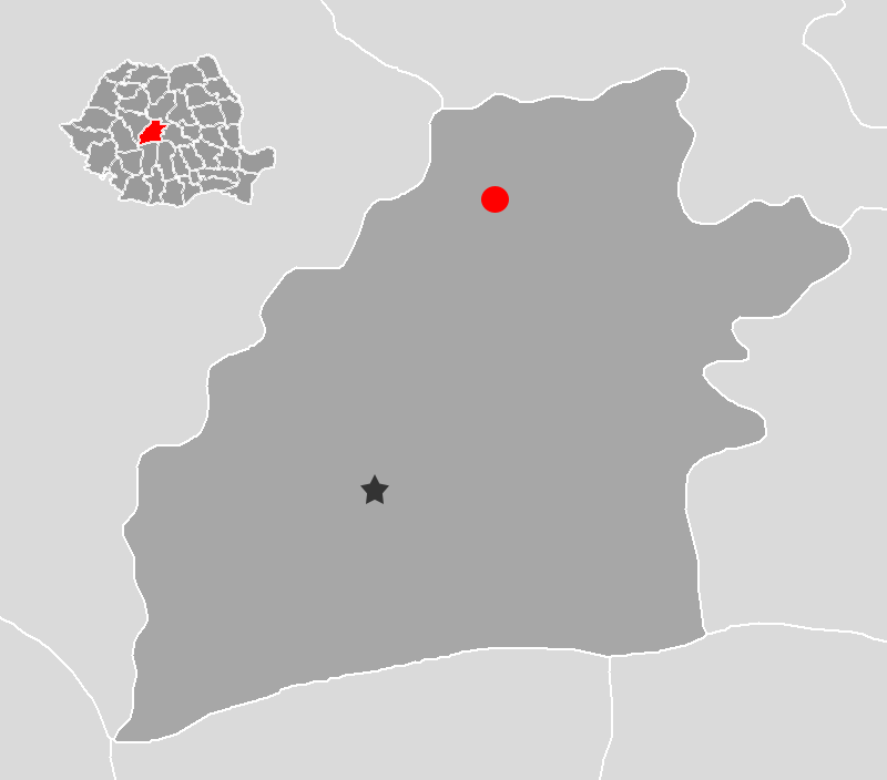 Location of Medias in Sibiu, Romania